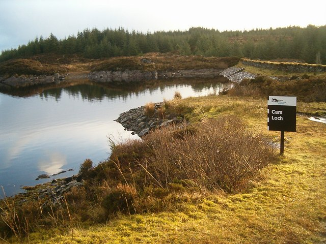 Cam Loch Dam Cam Loch - the "twisted loch" - is one of several reservoirs that supply the Crinan Canal.